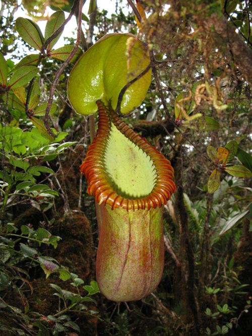 N.macrophylla